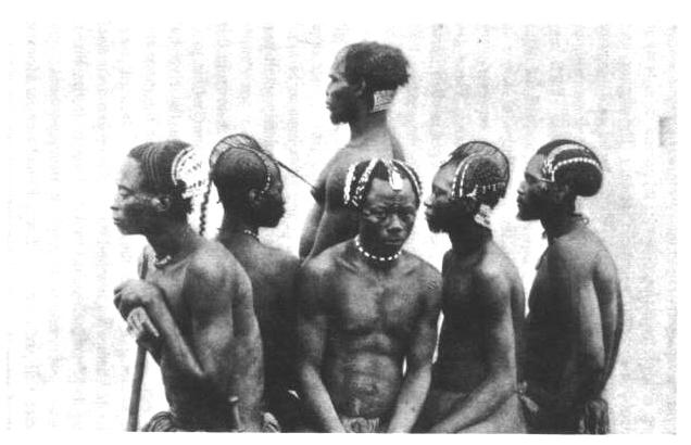 Sango natives of the Ubangi